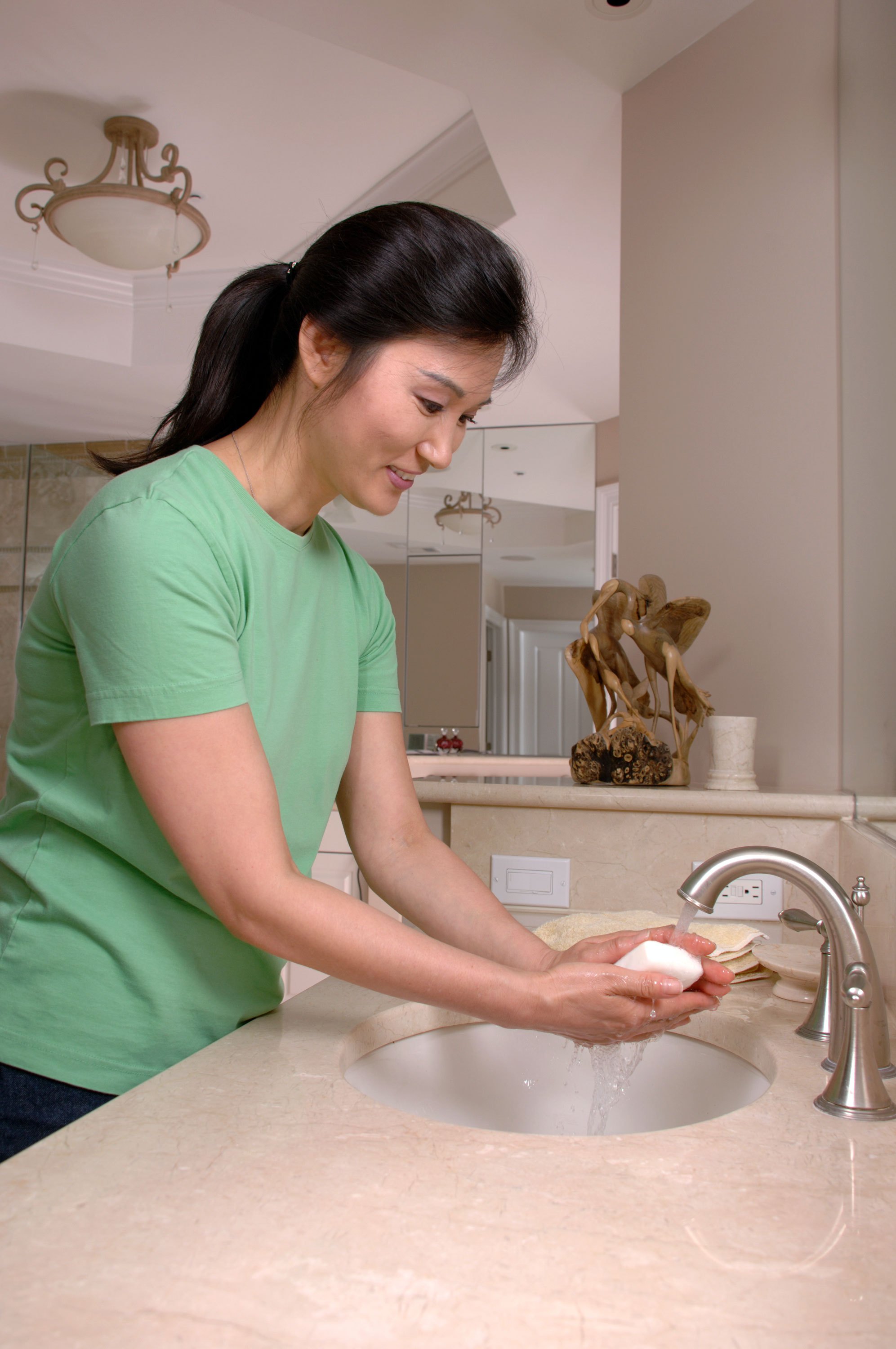 Title Woman Washing Hands Description An Asian woman washing her hands at a sink. Topics/Categories People -- Adult Type Color, Photo Source National Cancer Institute (NCI)